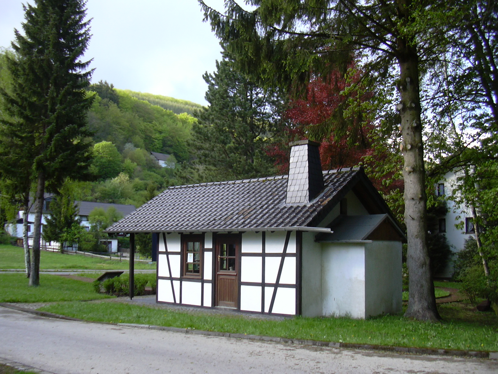 Erkensruhr, historic bakery building